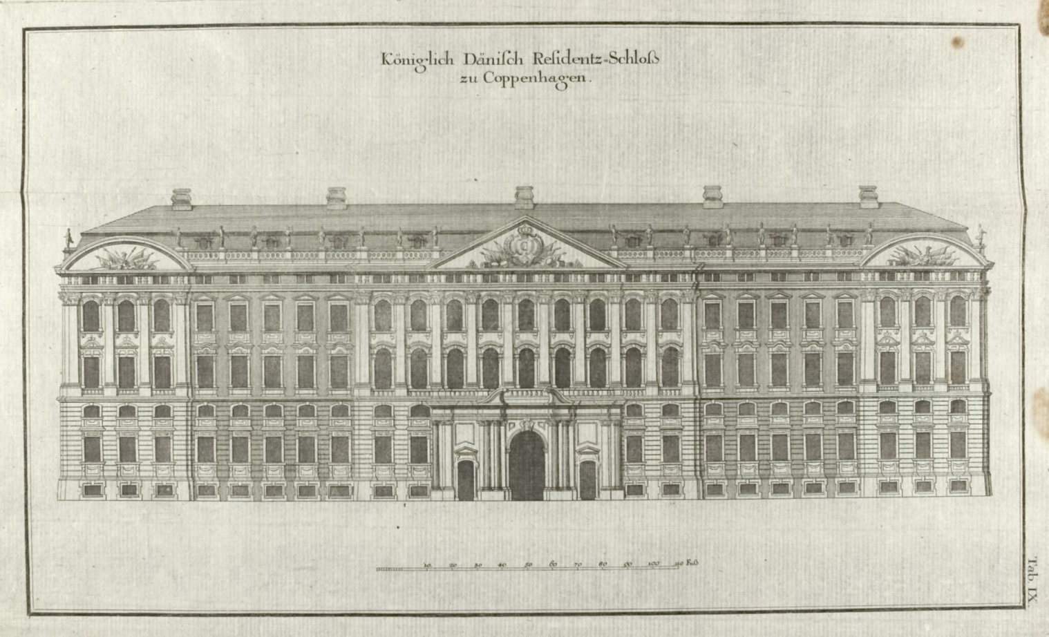 Elevation of the main facade of Christiansborg Palace, Copenhagen